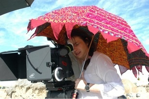 La regista Francesca Archibugi sul set di Lezioni di volo